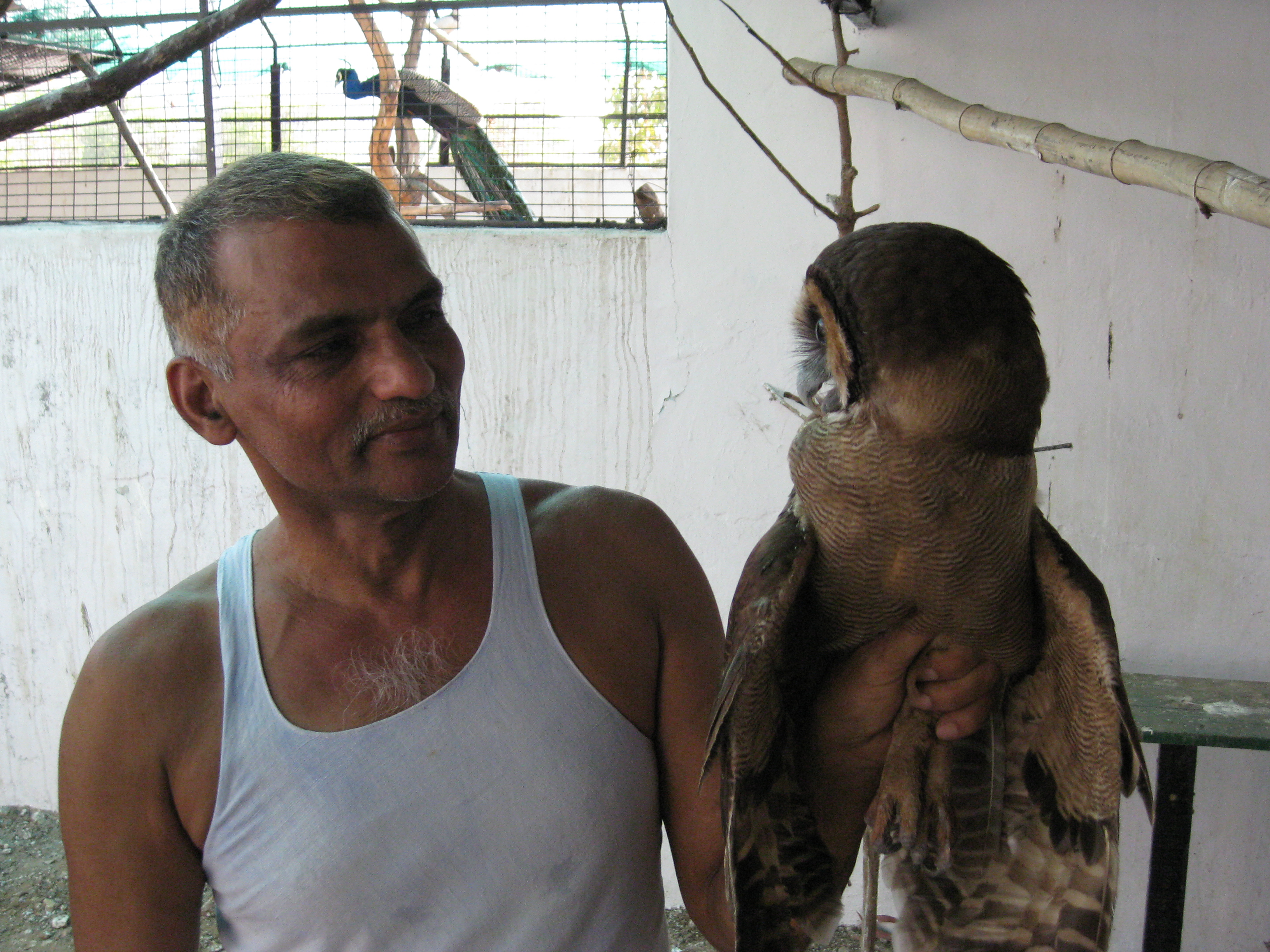 Prakash Amte with a rescued owl in his animal shelter.